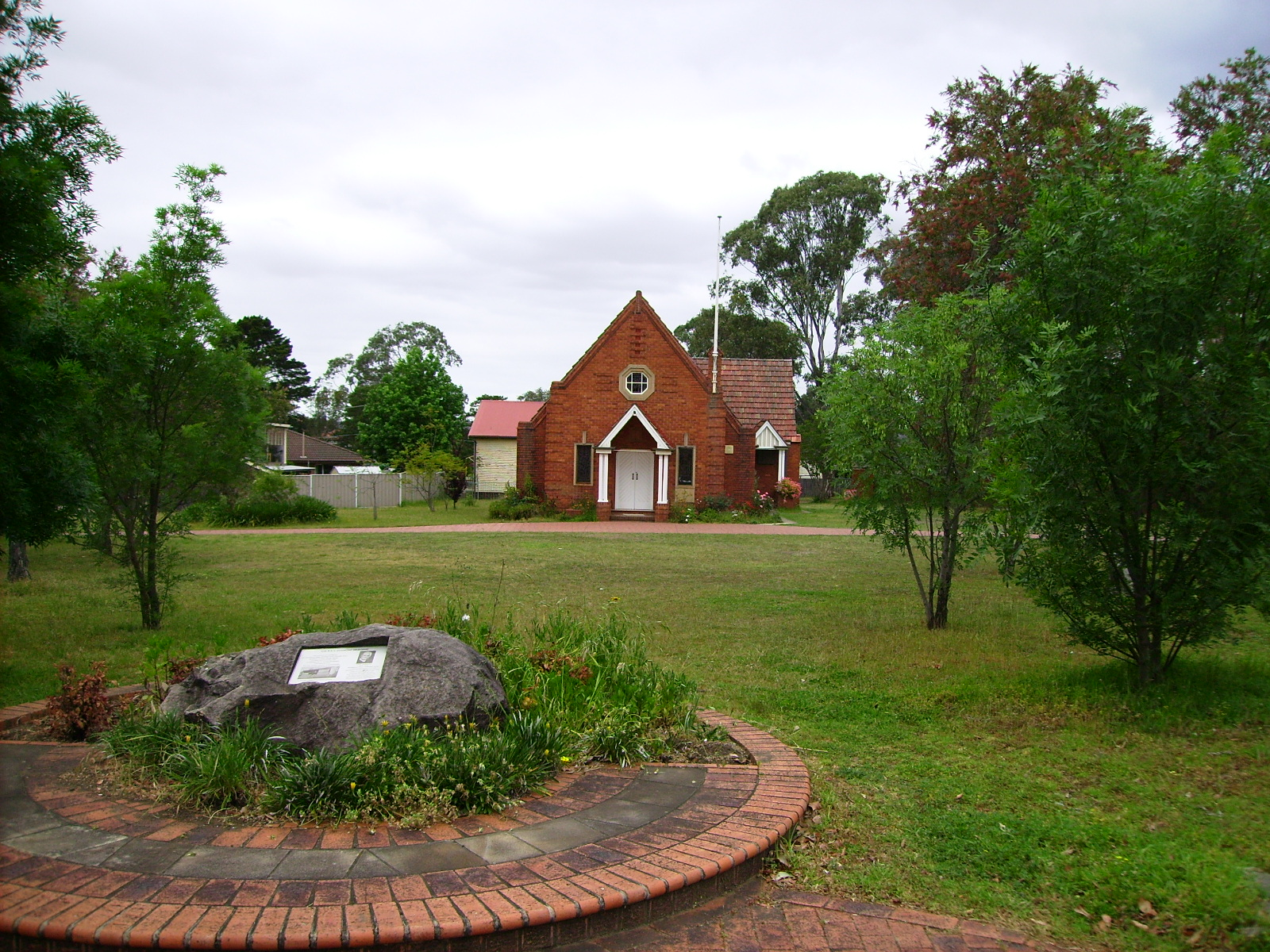 Hammondville - Memorial to its founder; and St Anne's Anglican Church.